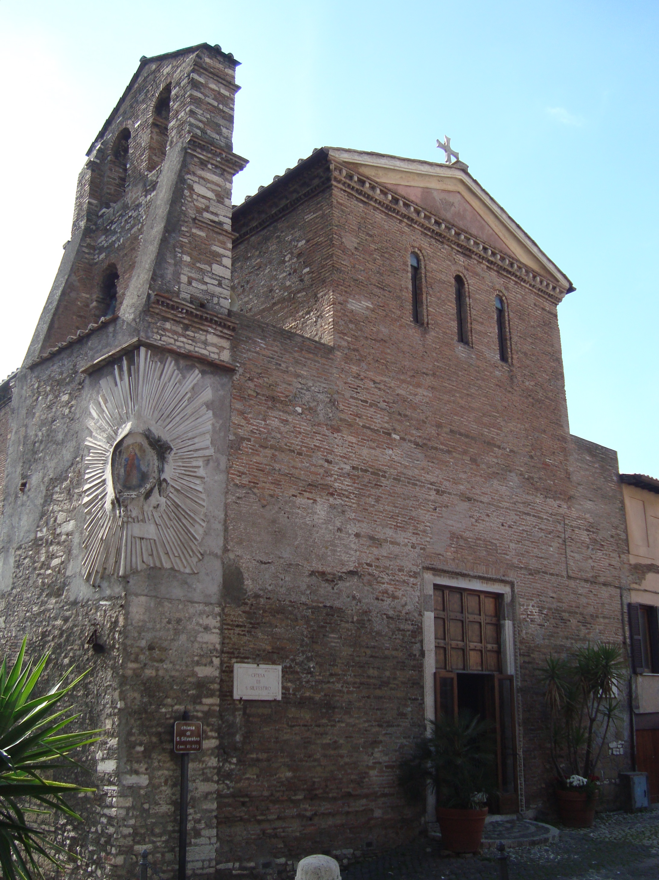 Church San Silvestro in Tivoli (11th-12th century)